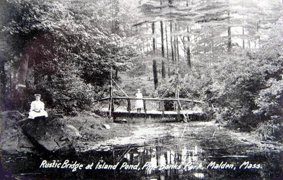 Rustic Bridge at Island Pond, Pine Banks Park, Malden, MA; from a 1908 postcard.